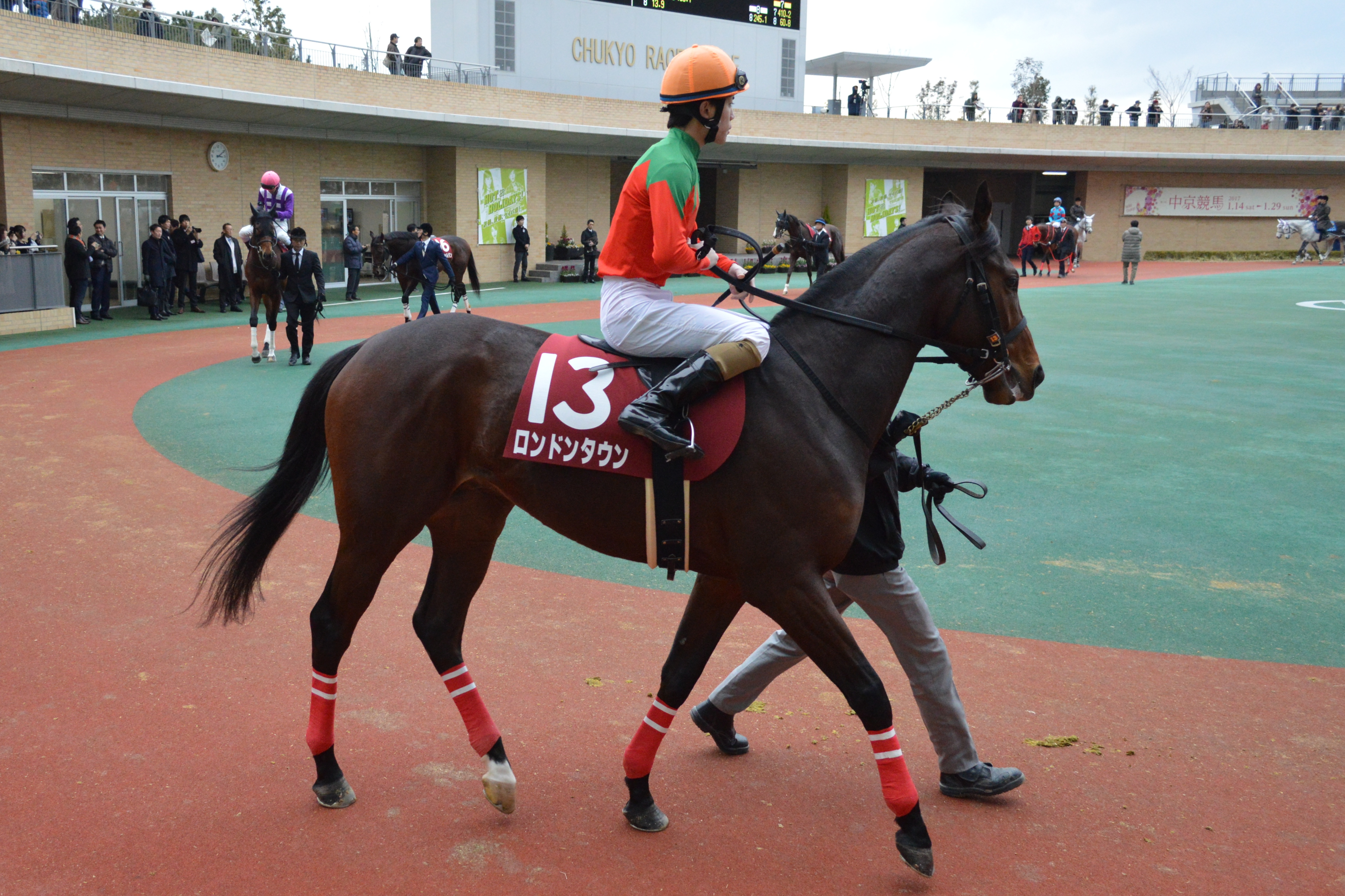 Japanese race horse London Town at Chukyo racecourse. Chukyo (JPN) 22 Jan 2017 Tokai TV Hai Tokai Stakes (Grade 2) (4yo+) (Dirt) 1m1f Standard RankHorse NameOddsAgeWgtJockeyTrainer1stGlanzend (JPN)8/5FC48-9Norihiro YokoyamaYukihiro Kato7thLondon Town (JPN)35/1C48-9Kyosuke KokubunKazuya MakitaOthers are omitted. (16 horses entered in a race.)